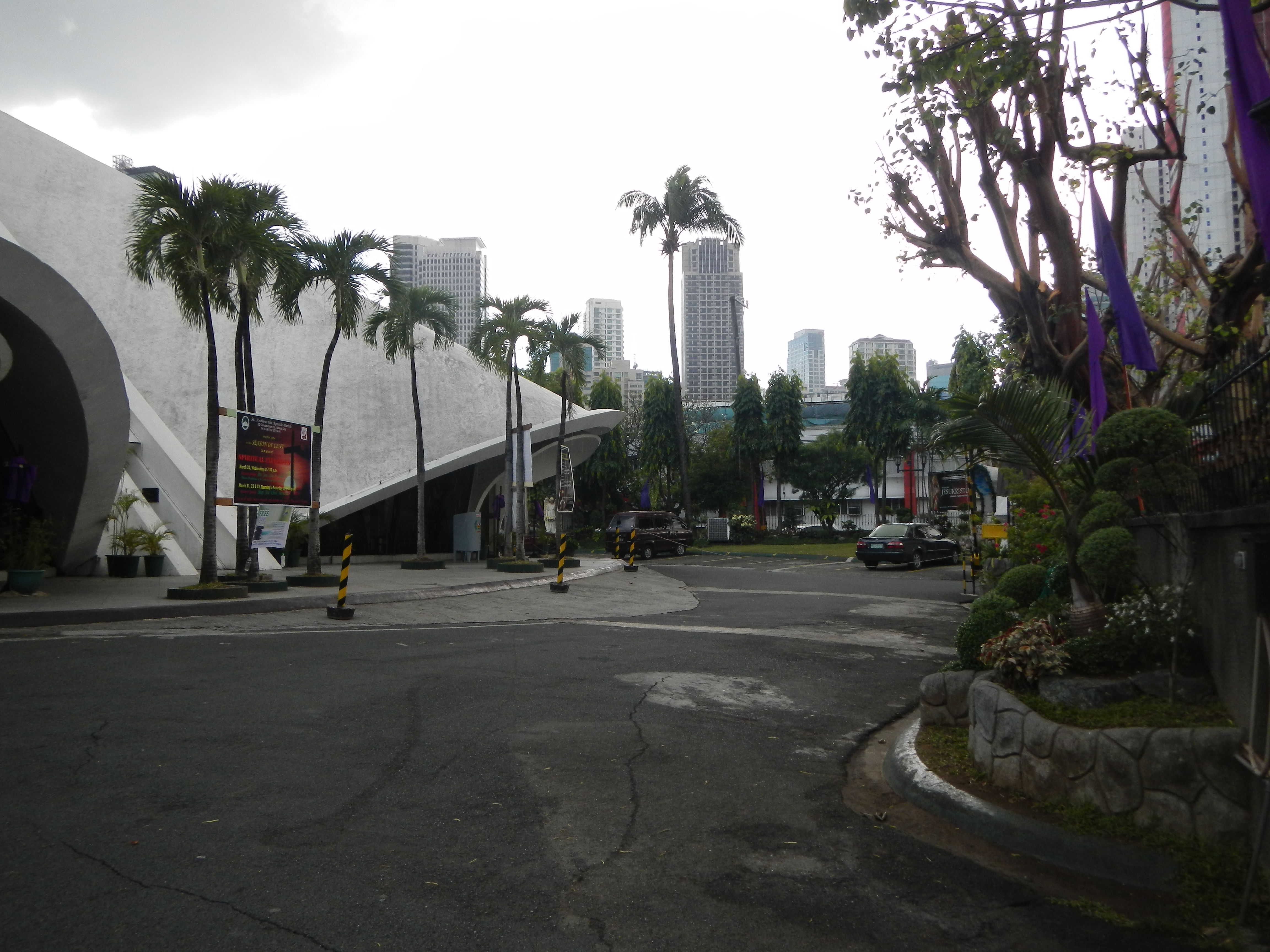 Saint Andrew the Apostle Church[1] is a Roman Catholic Church in Bel-Air Village[2], Makati City[3]. It is one of the known Modern Edifices designed by Leandro V. Locsin[4] in Makati City. This Parish is dedicated to Saint Andrew[5]the Apostle, the patron saint of Metro Manila and Bel-Air Village. Its Parish Territories are Bel-Air Village (Barangay Bel-Air), San Miguel Village (Barangay Poblacion), Rizal Village and Santiago Village (Barangay Valenzuela), Legazpi Village (Barangay Bel-Air), and Salcedo village (Barangay San Lorenzo).[6]Rev. Msgr. Peter Eymard Mercelino "Dennis" Sison Odiver - MSGR. Emmanuel V. Sunga Immediate Past Parish Priest , Makati City #62 Constellation St., N. Garcia St. cor. Kalayaan Ave in front of J. Romero & Associates. Bel-Air II, Makati City[7] Built by National Artist for Architecture Leandro Locsin in 1968, the design of this parish church in Bel-Air Makati is symbolic of the manner the martyr died crucified on an X-shaped cross. The butterfly shaped floor plan emanates from this cruciform. Many other symbolic features mark the tent-like structure, including the giant chandelier over the altar which serves as a halo over the copper cross by National Artist for Visual Art, Vicente Manansala.[8][9] Coordinates: 14°33'57"N 121°1'25"E It belongs to the [10]Roman Catholic Archdiocese of Manila Vicariate of St Peter and Paul